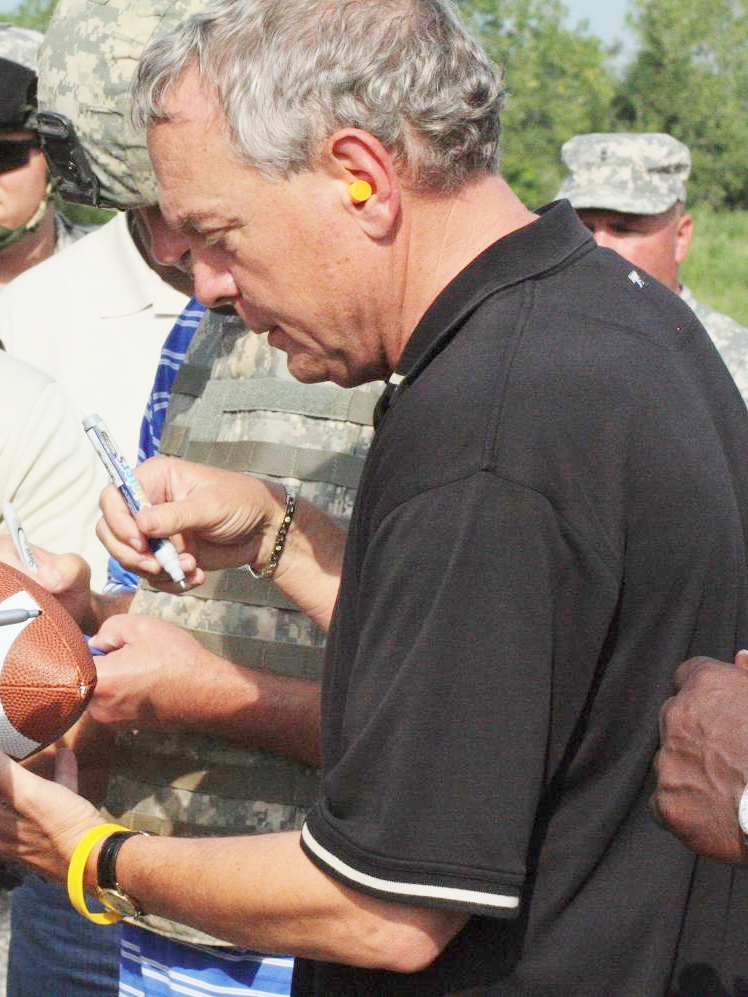 University of Kentucky defensive backs coach Chris Thurmond signs an autograph for Kentucky Army National Guard servicemembers.